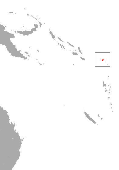 Temotu Flying Fox (Pteropus nitendiensis) range